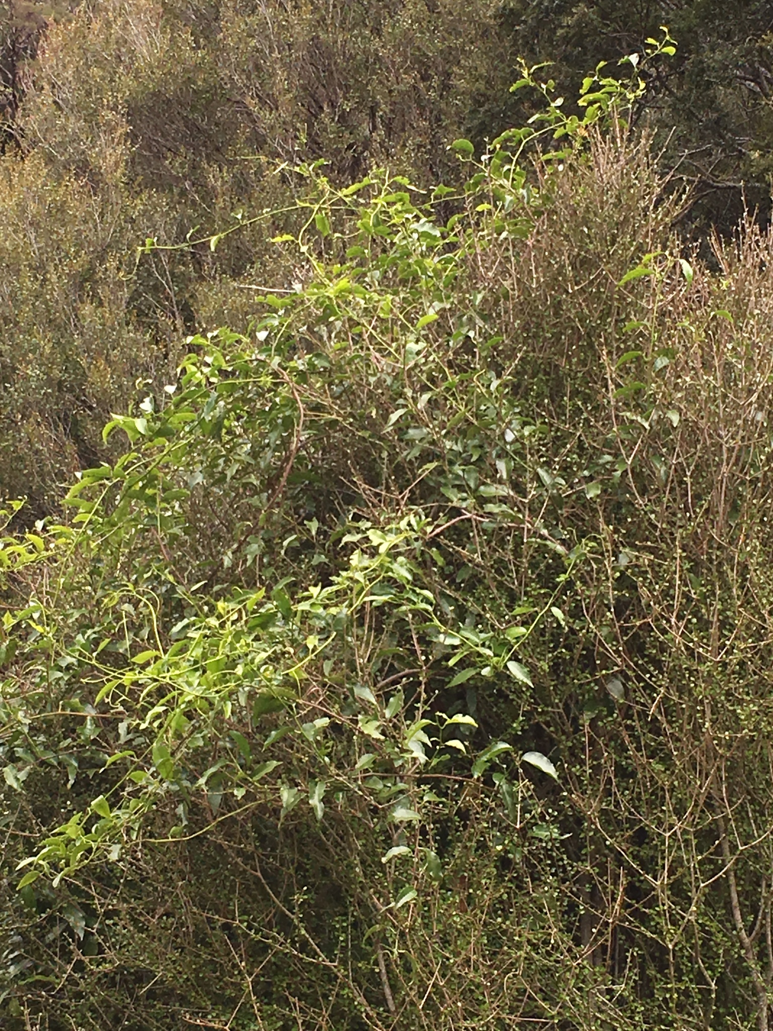 Passiflora tetrandra (Q7142637) by Tim Park (Q62777422) observed via iNaturalist at Wellington Botanic Garden (Q2447822).